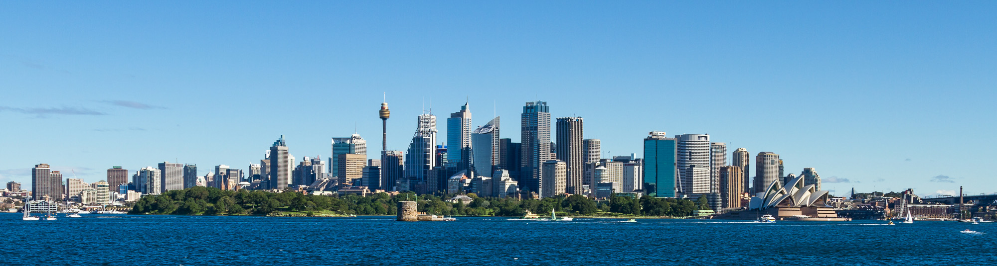 Sydney CBD from Sydney Harbour